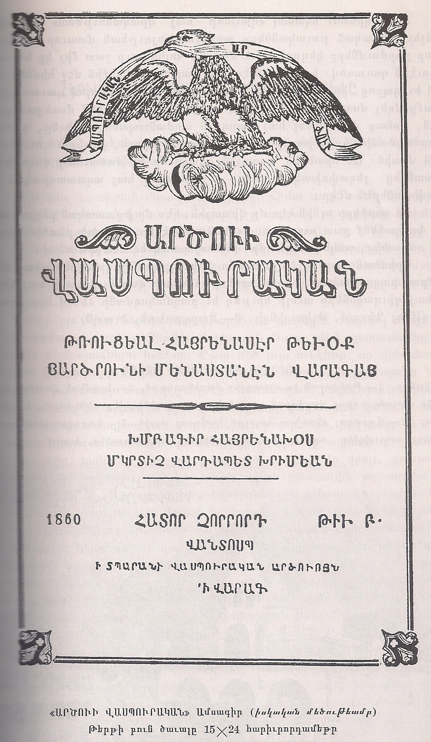 Armenian News paper fourth year 2nd copy